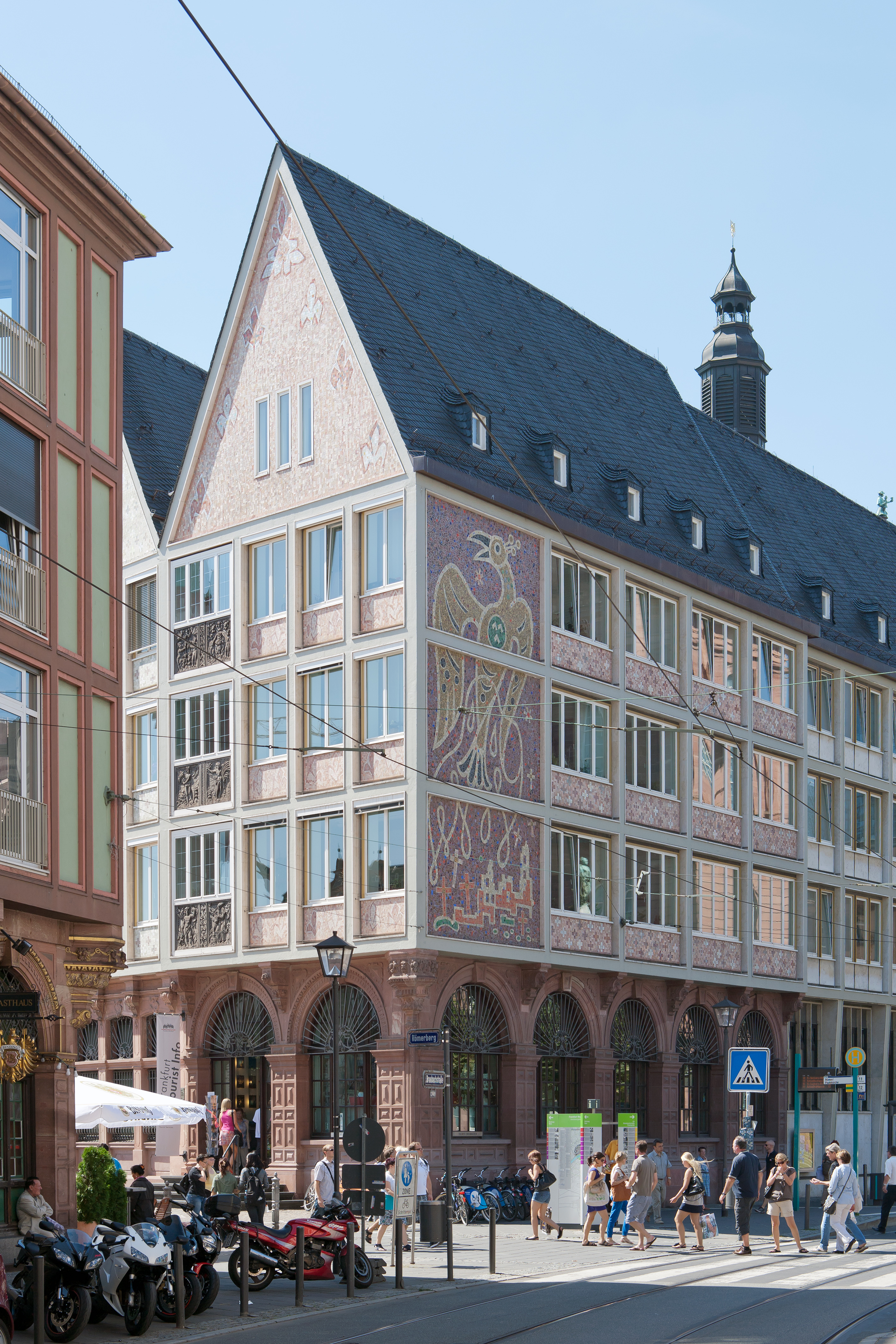 Frankfurt on the Main: Salzhaus (Salt House) as seen from the northeast at the Braubachstraße (Braubach Street)